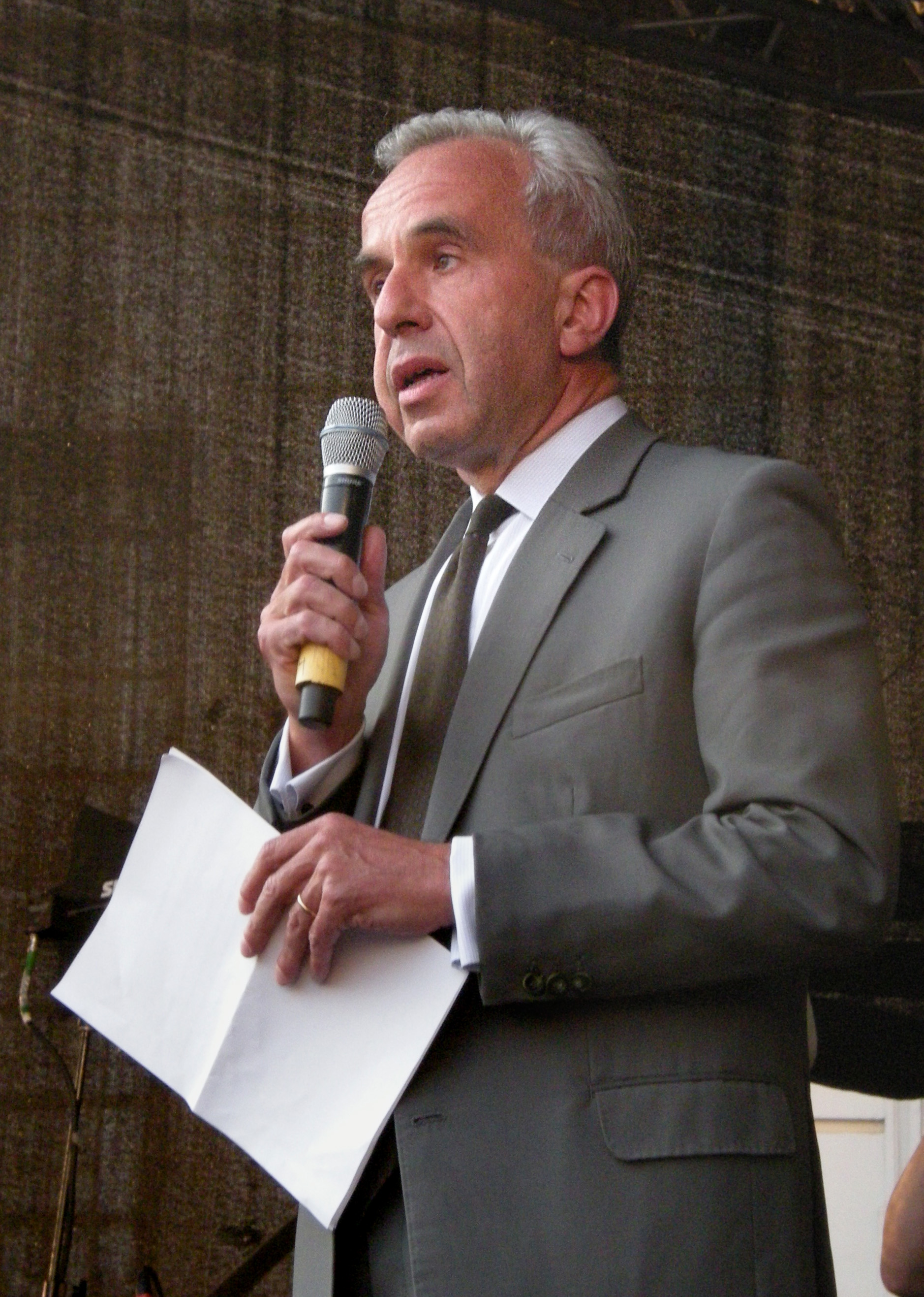 Former Austrian minister Rudolf Scholten speeking in front of some ~10.000+ persons demonstrating against actual Austrian 'policy' on asylum rights. This event was supported by a considerable quantity of renowned Austrian artists, writers and politicians. Please note that camera's time stamp is set to UT, which is local CEST -2h.